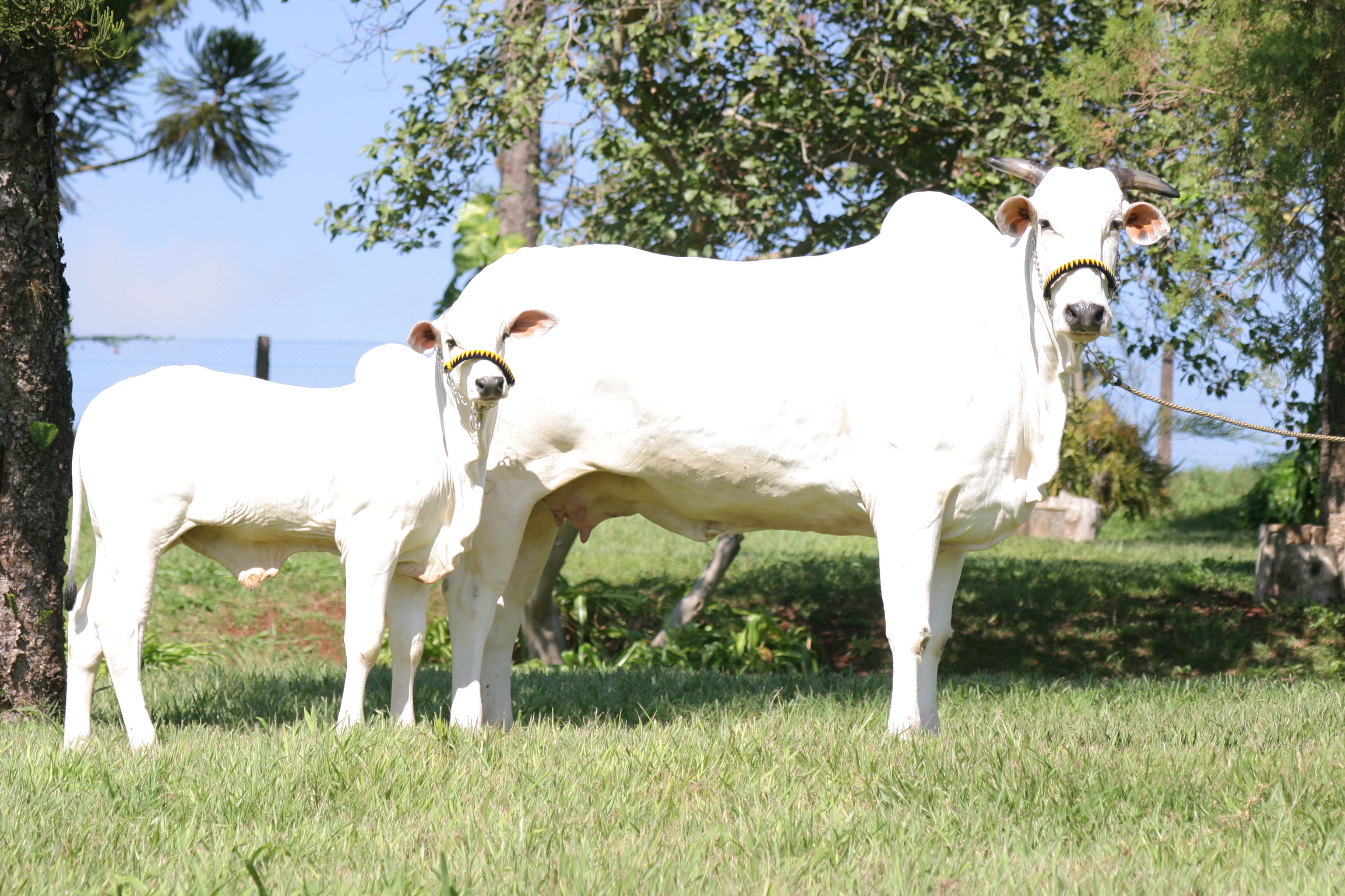 A Nelore cow and her young male calf.